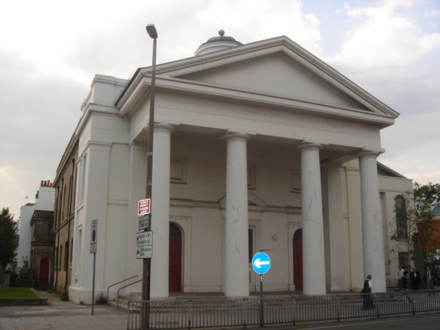 The former St Paul's Church, Chapel Road, Worthing. Built as the town's chapel of ease; now deconsecrated and used for secular purposes.